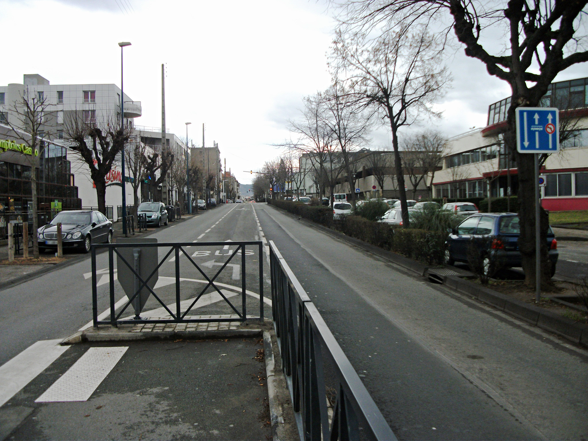 Boulevard Berthelot at the border between Chamalières and Clermont-Ferrand. A bus lane was created in the middle for hi-level service line C.